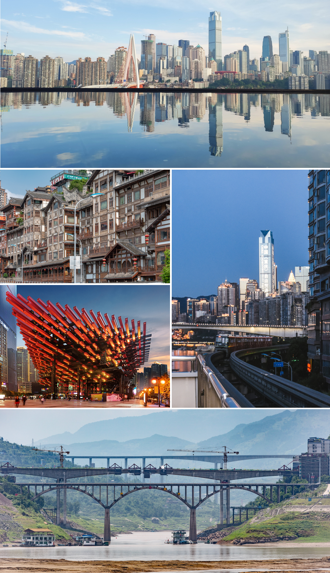 A montage of various images of Chongqing already available on wiki commons.